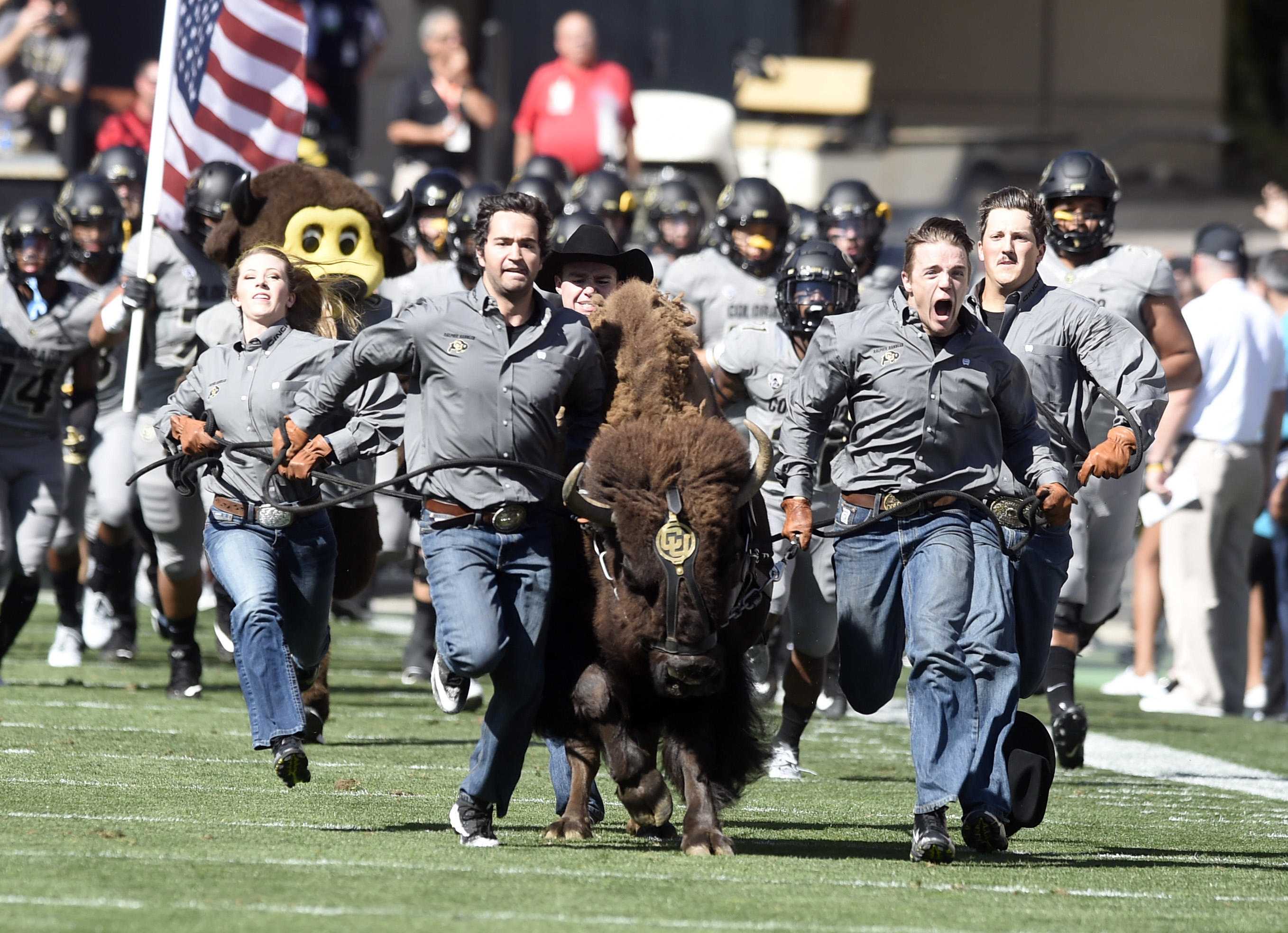 Ralphie leads CU's football team on the field before a game in 2018.